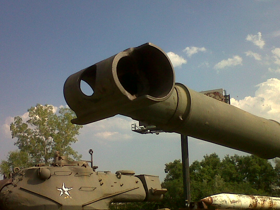 M47 Paton main gun muzzle brake, taken at the Russell Military Museum